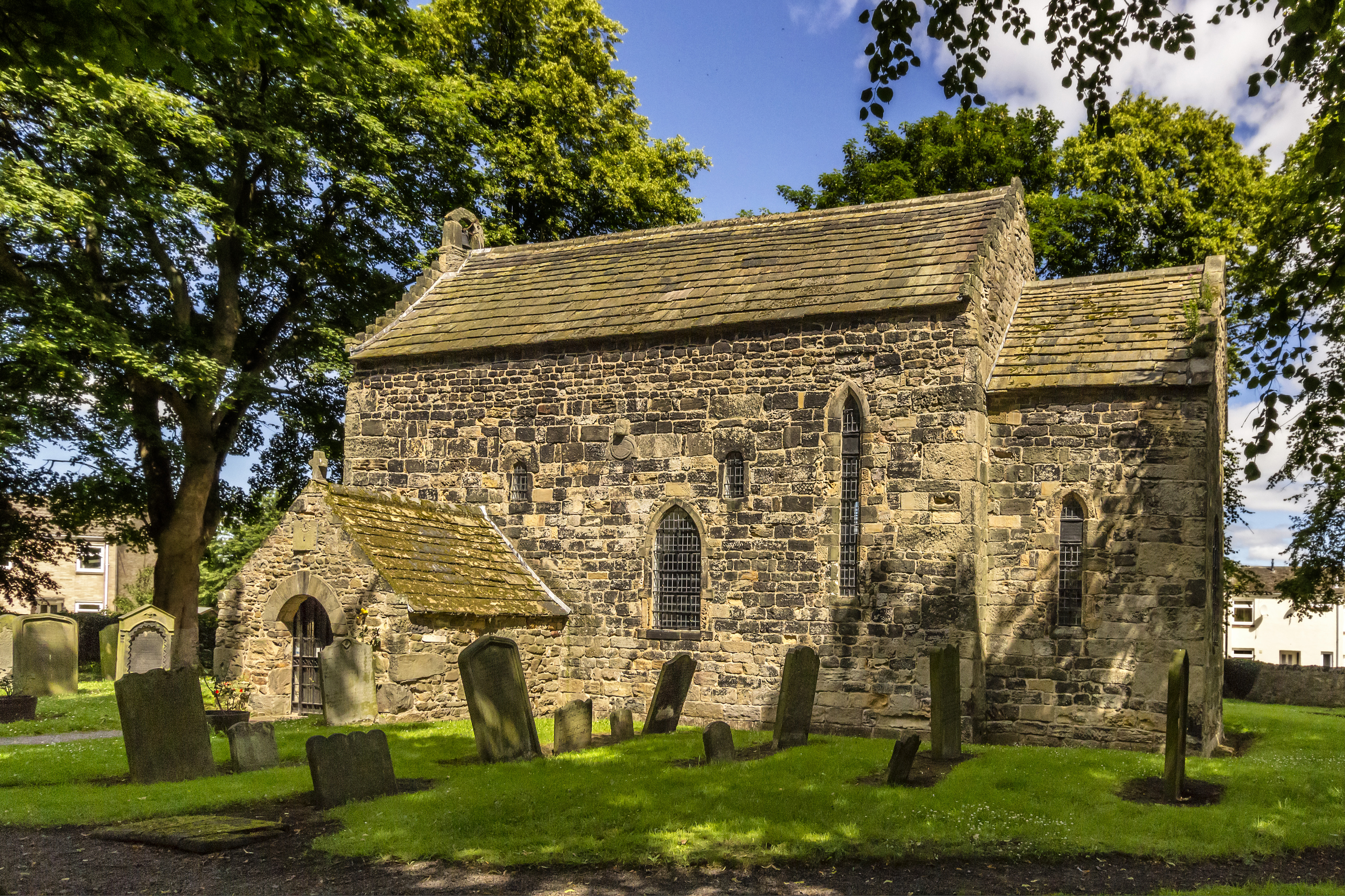 The parish church, Escomb, County Durham, seen from the south